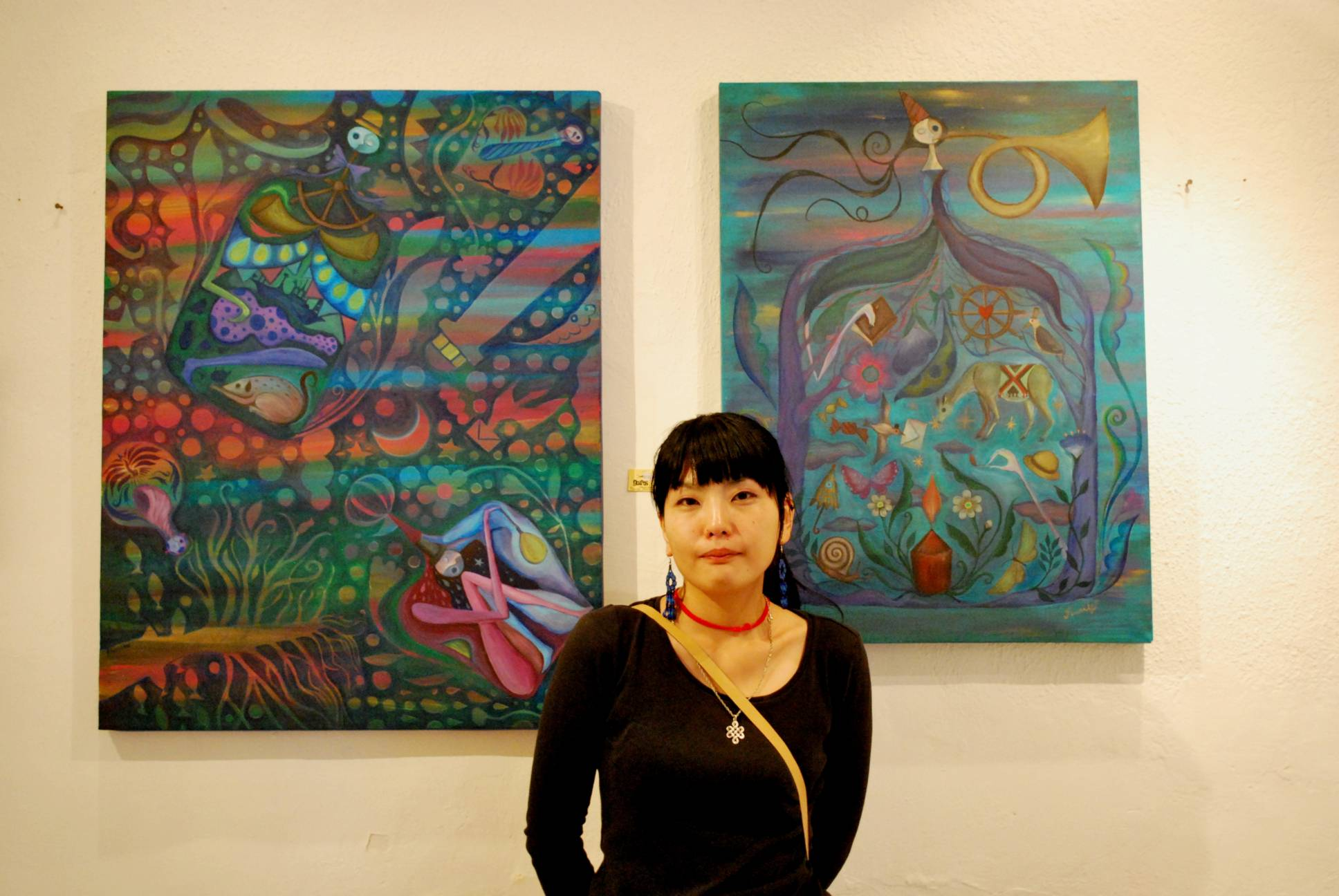 Fumiko Nakashima ( with two of her paintings at Galeria Garros ( in Mexico City